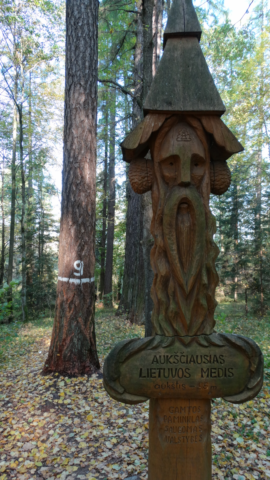 Highest larche tree in LT, Degsnė forest, Prienai district, Lithuania